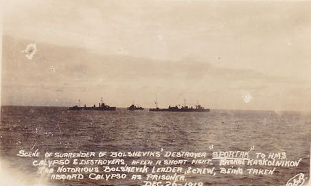 Old British Post Card with photoimage of bolshevik's navy ship SPARTAK captured by British Baltic Fleet in December 1918.